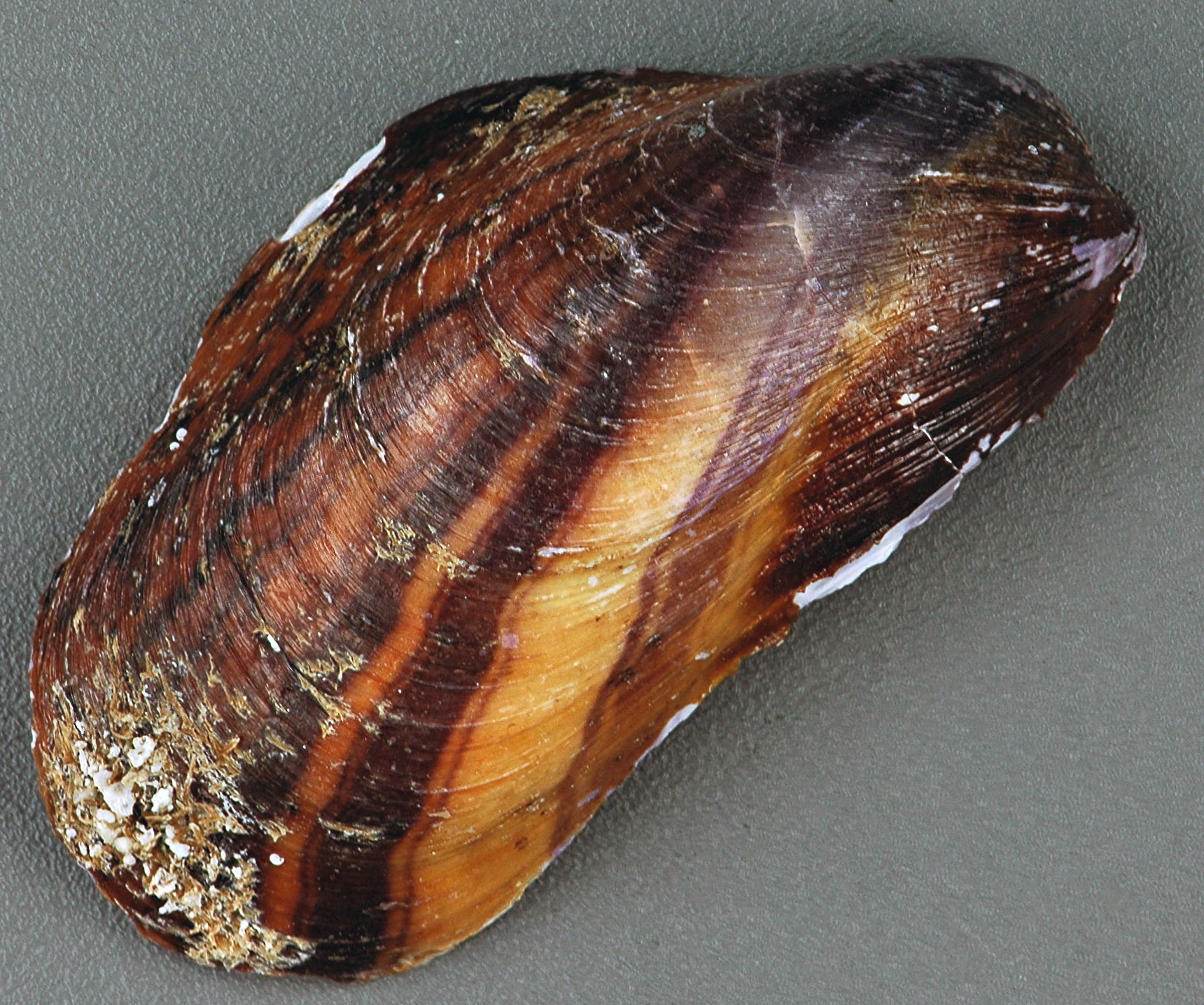 Modiolus americanus (Leach, 1815) - exterior of a right valve of the American horse mussel, 3.15 cm across at its widest. Family Mytilidae (Devonian to Holocene) - the mussels are filter-feeding, epifaunal, byssal thread attachers that principally occupy shallow to deep marine and estuarine environments.